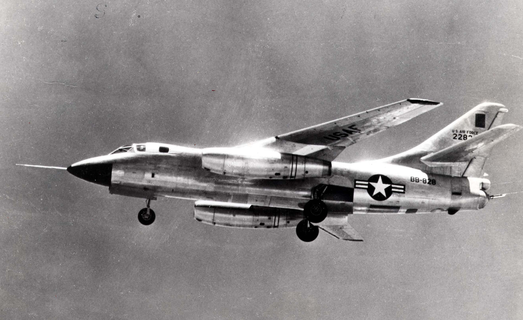 Douglas RB-66A Destroyer (SN 52-2828, the first RB-66A built) in flight landing configuration. Photo taken Aug. 10, 1954